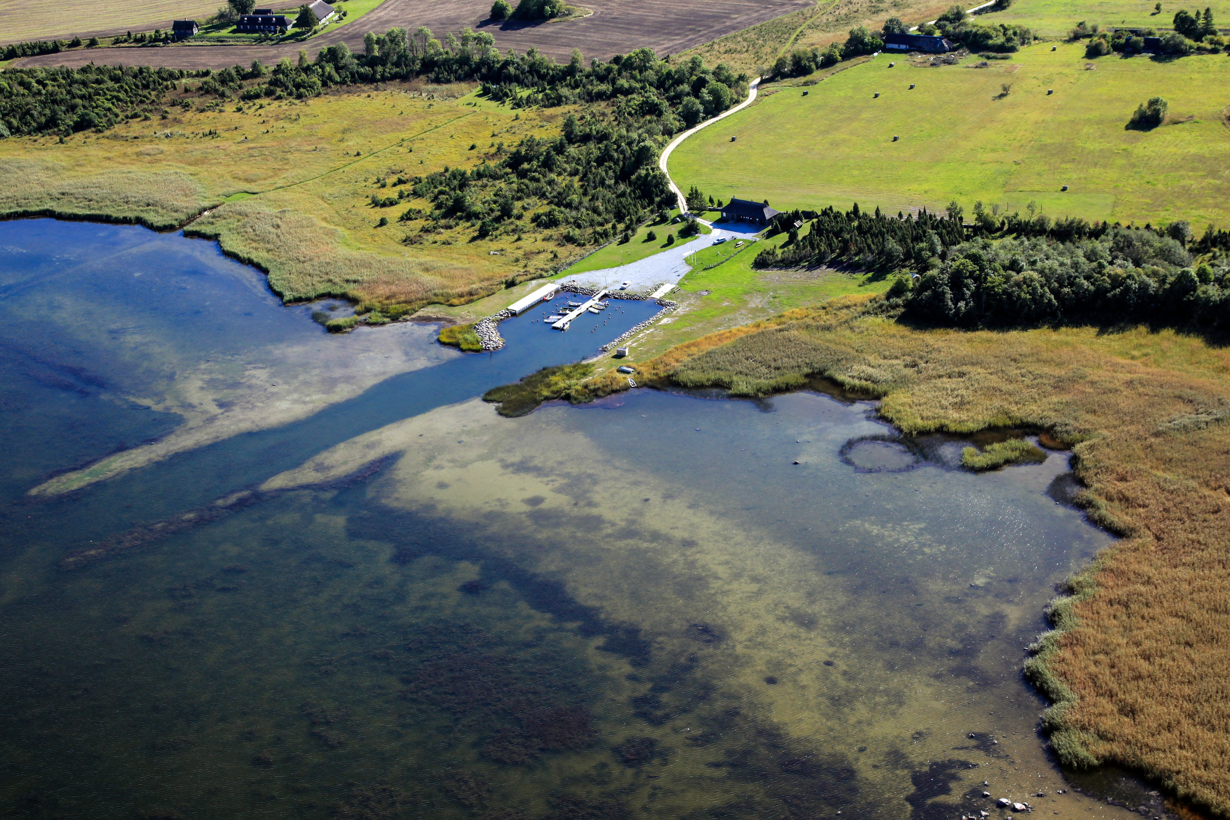 Kungla harbour, 2015